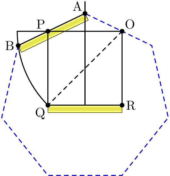 Neusis construction of a regular heptagon